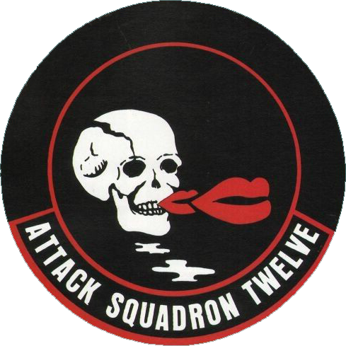 The emblem of the U.S. Navy Attack Squadron (VA-12) Flying Ubangis. The squadron had been established on 12 May 1945 as fighter-bomber squadron "VBF-4". It was redesignated "VF-2A" on 15 November 1946, "VF-12" on 2 August 1948, and was finally attack squadron "VA-12" on 1 August 1955. The squadron was disestablished on 1 October 1986.